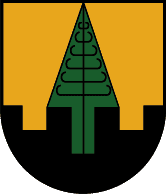 Source: "Fahnen-Gärtner GmbH, Mittersill" This file depicts a coat of arms. The composition of coats of arms are generally public domain with respect to copyright laws, and may be reproduced freely. This corresponds to the international traditional usage, and is explicitly stated in some national copyright laws. Some compositions, of more recent origin, may be copyrighted. This is not a valid license as such, being a "public domain" statement for the coat of arms definition only. It must be completed with the copyright tag associated to the picture creation. See Commons:Coats of arms for further information. Please note that this applies only to the coat of arms definition (composition / description). The representation of a coat of arms is an artistic creation, subject as such to copyright laws. Restriction of use - Legal notice: Most of the time, the usage of coats of arms is governed by legal restrictions, independent of the status of the depiction shown here. A coat of arms represents its owner. Though it can be freely represented, it cannot be appropriated, or used in such a way as to create a confusion with or a prejudice to its owner. Usage on Commons: Please provide licence information for the coat of arm representation, information for the author of the picture, and the source if not self-made work. This image is in the public domain according to Austrian copyright law because it is part of a law, ordinance or official decree issued by an Austrian federal or state authority, or because it is of predominantly official use. (§7 UrhG) To uploader: Please provide where the image was first published and who created it.